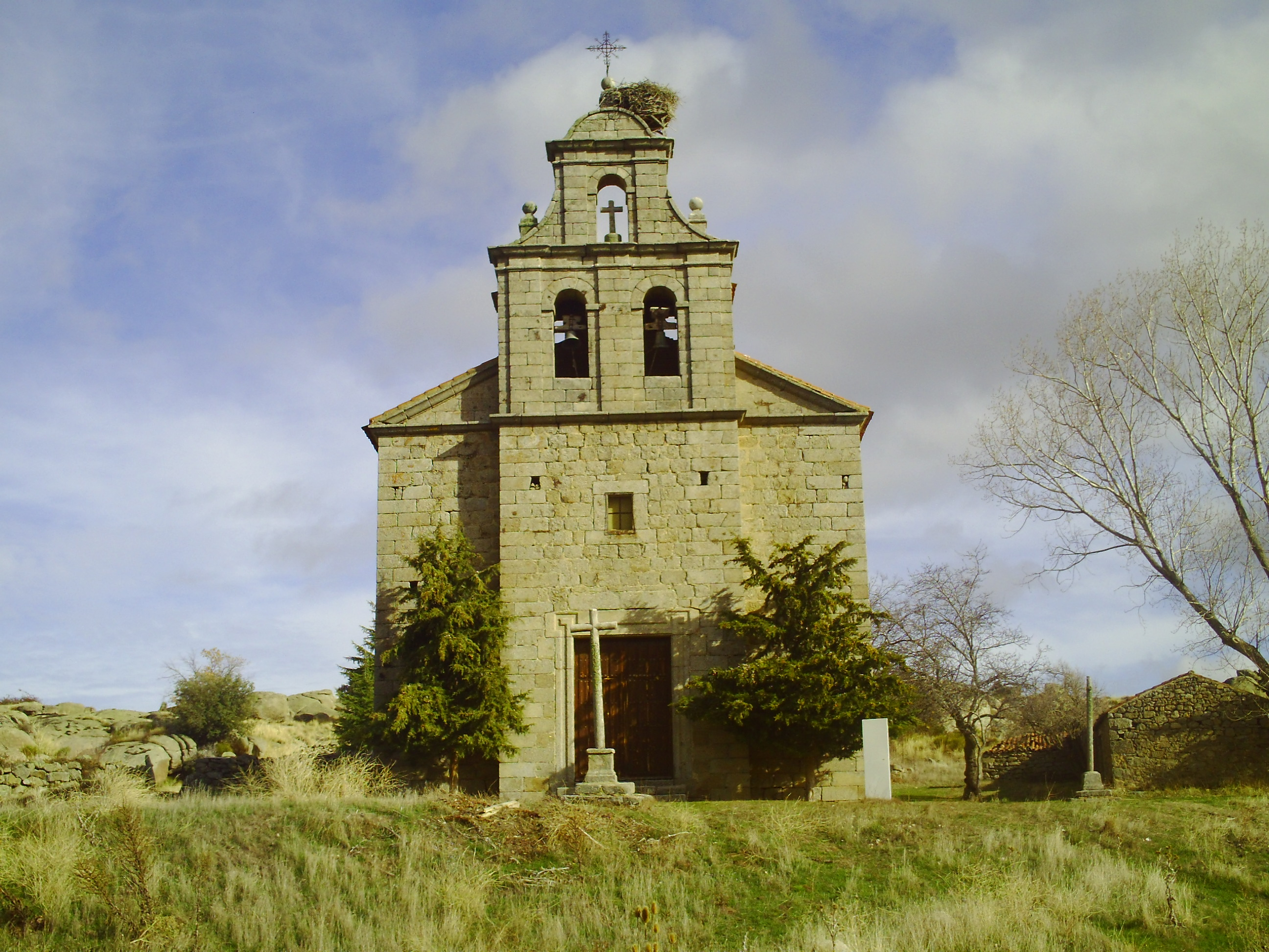 Hermitage of Our Lady of Rihondo